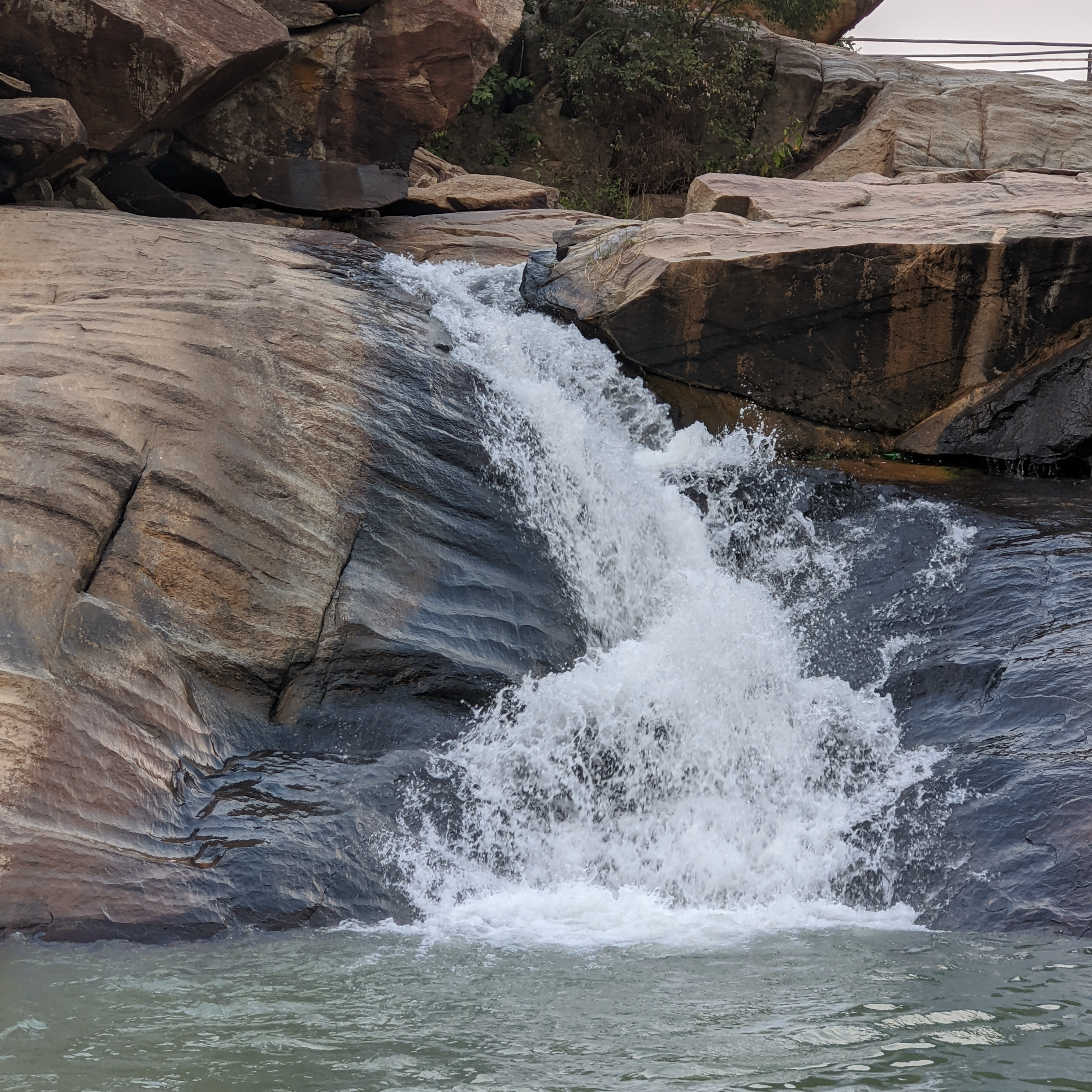 A closeup of the waterfall